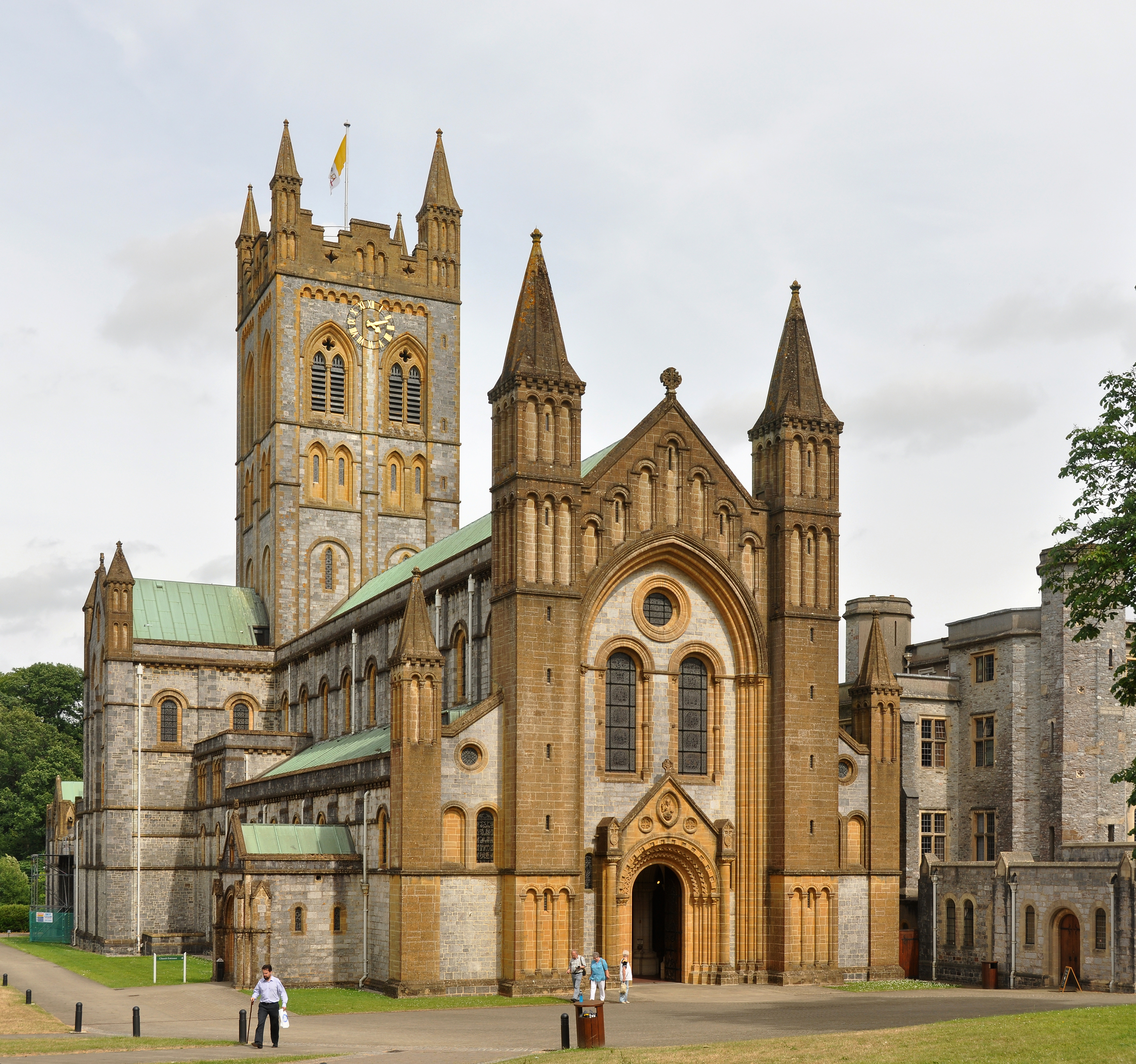 Buckfast Abbey, near Buckfastleigh in Devon